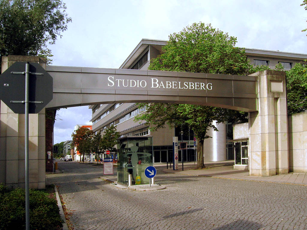 Entrance to the Filmstudio Babelsberg